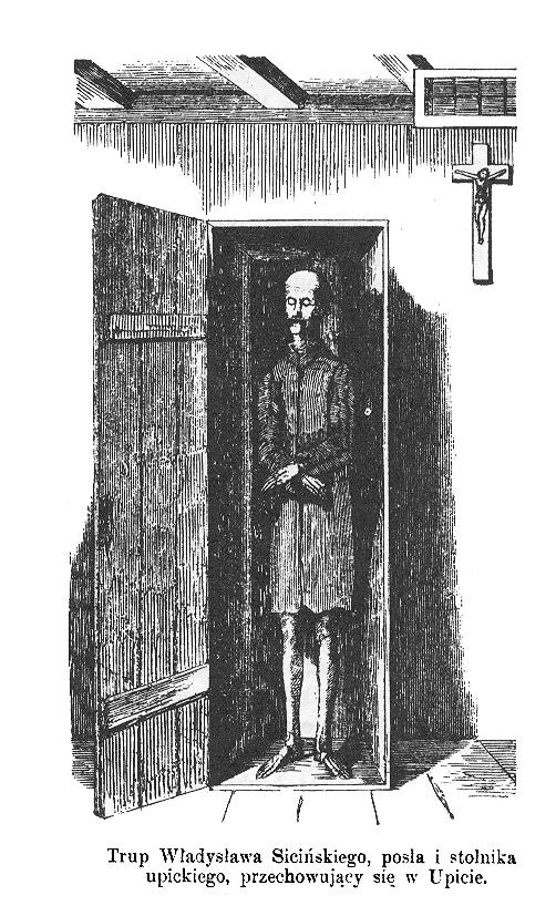 mummified body of Władysław Siciński, member of parlament from Upita